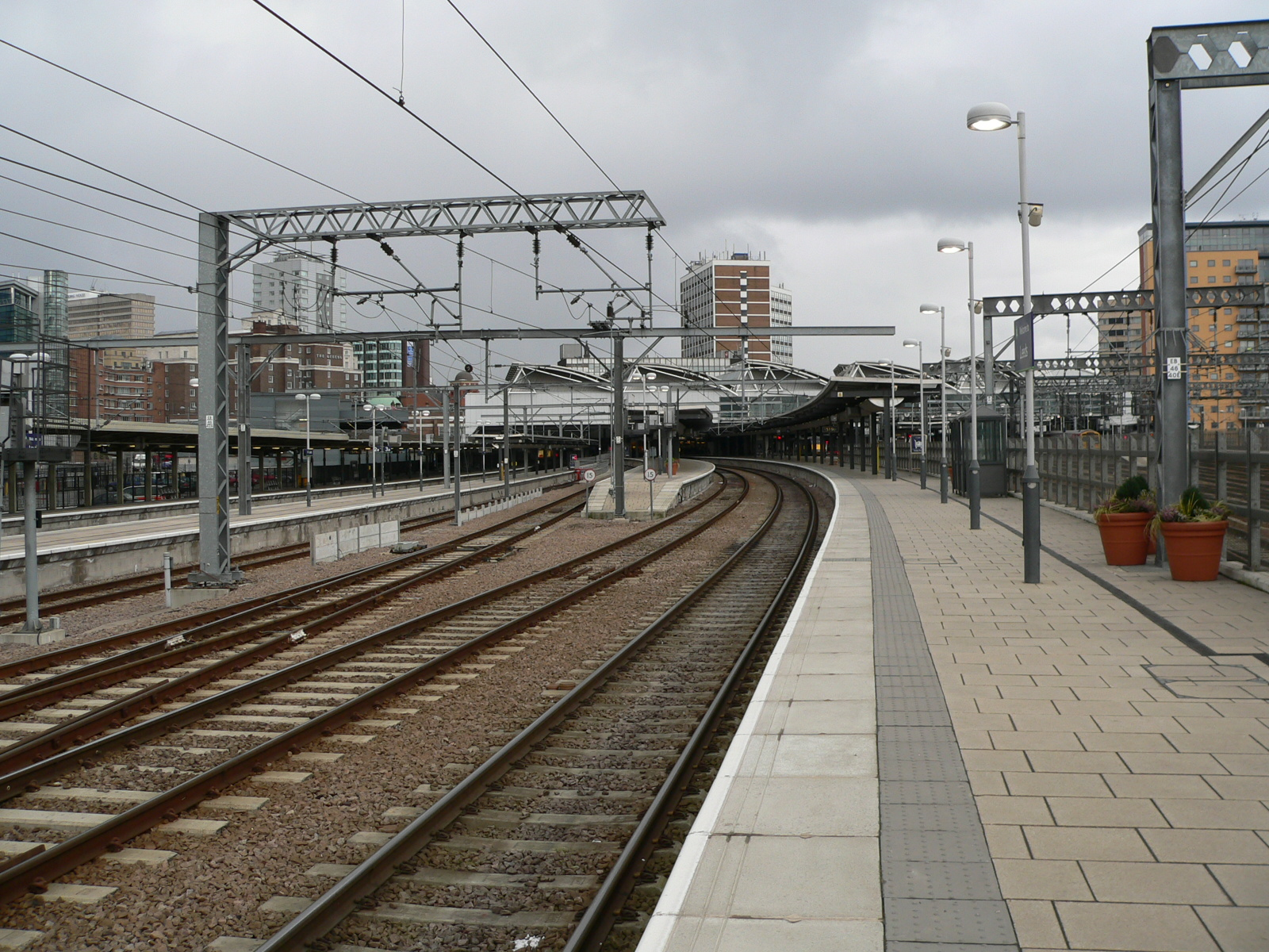 The western end of Leeds City railway station, looking at the terminal platforms from the end of platform 7, the through platforms (which do not extend this far west) are the other side of the fence on the extreme right of the photograph. This arrangement is the result of the station originally being built as two adjacent ones.